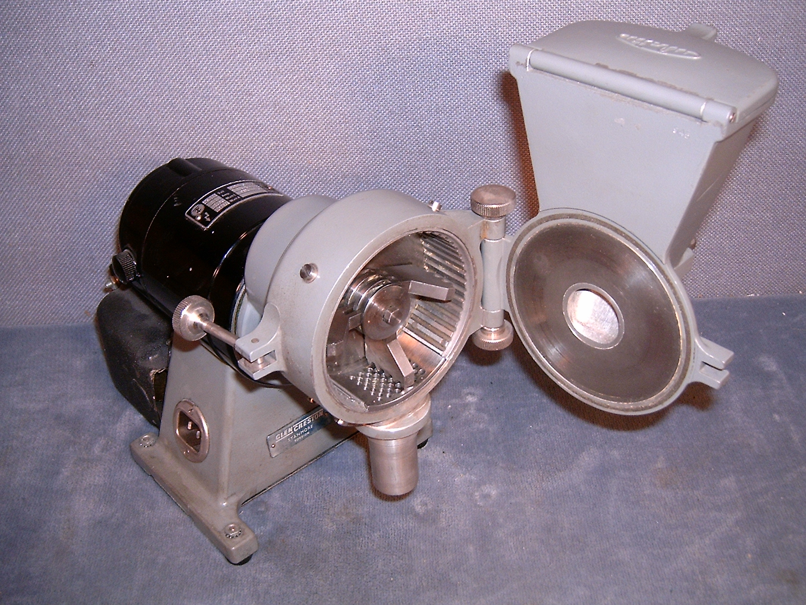 A Glen Creston Stanmore tabletop hammer mill. The input hopper is part of the front door, open in this shot to show the inner mechanism. The outlet has a mesh to determine the maximum particle size.